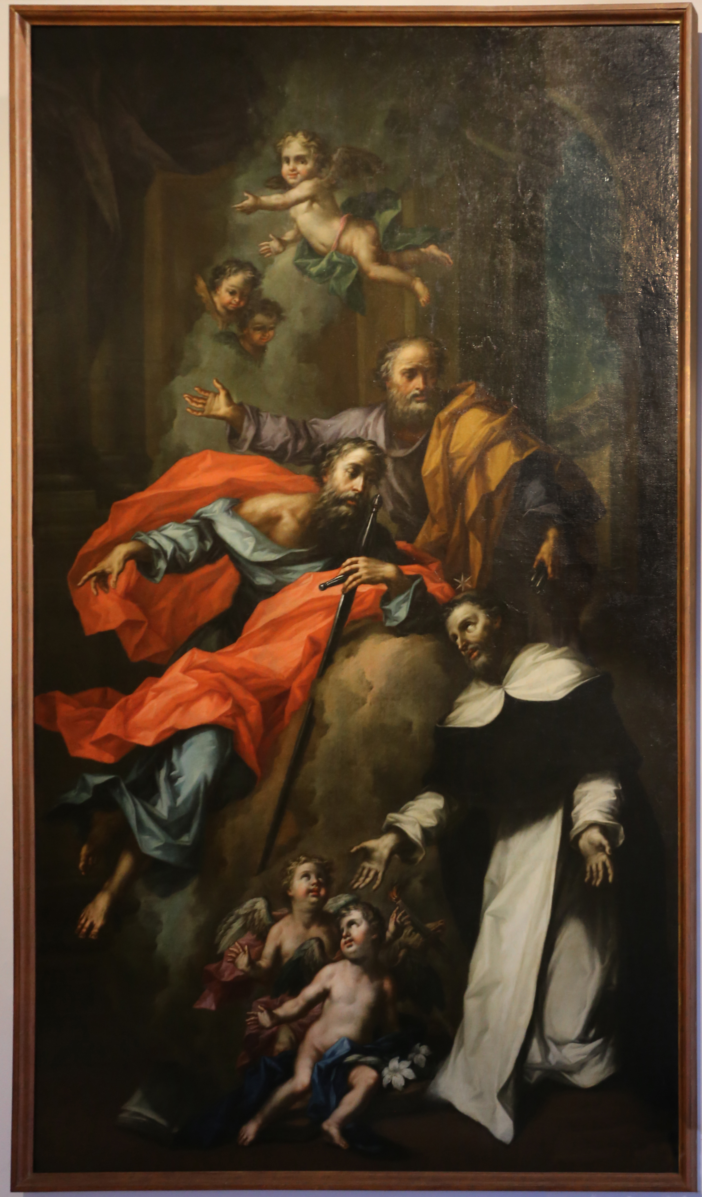 Collections of Palazzo Ducale (Mantua)